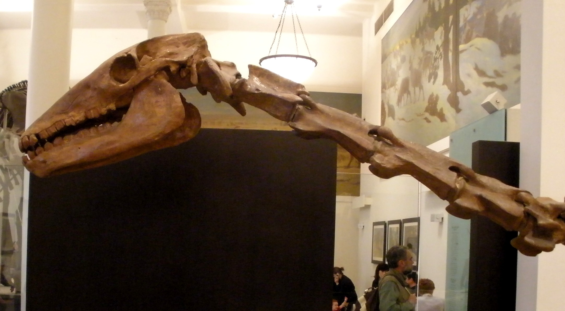 Skull of Macrauchenia patachonica, a fossil litopteran, in the "American Museum of Natural History", New York